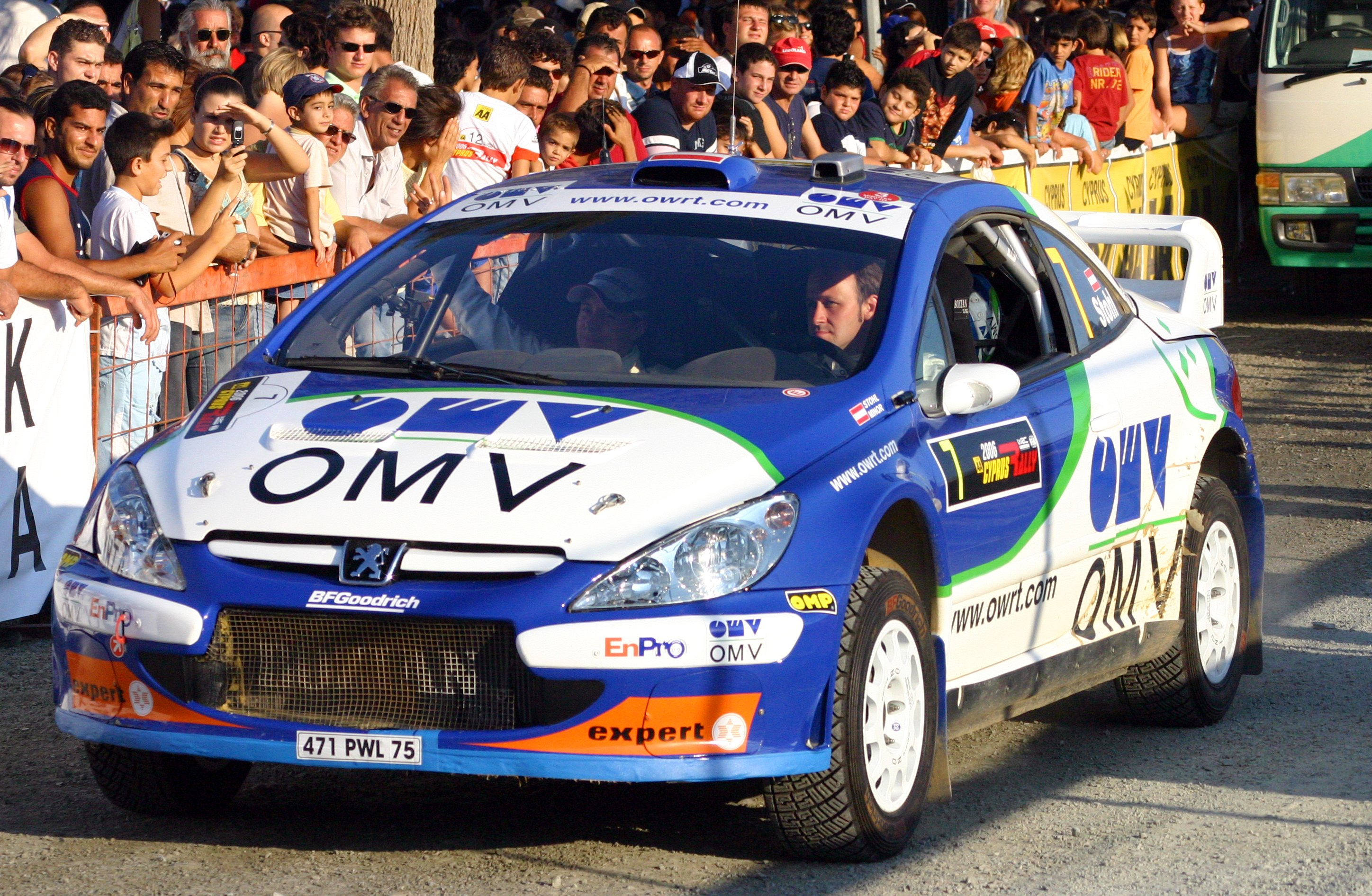 Manfred Stohl at the closing ceremony of the 2006 Cyprus Rally.